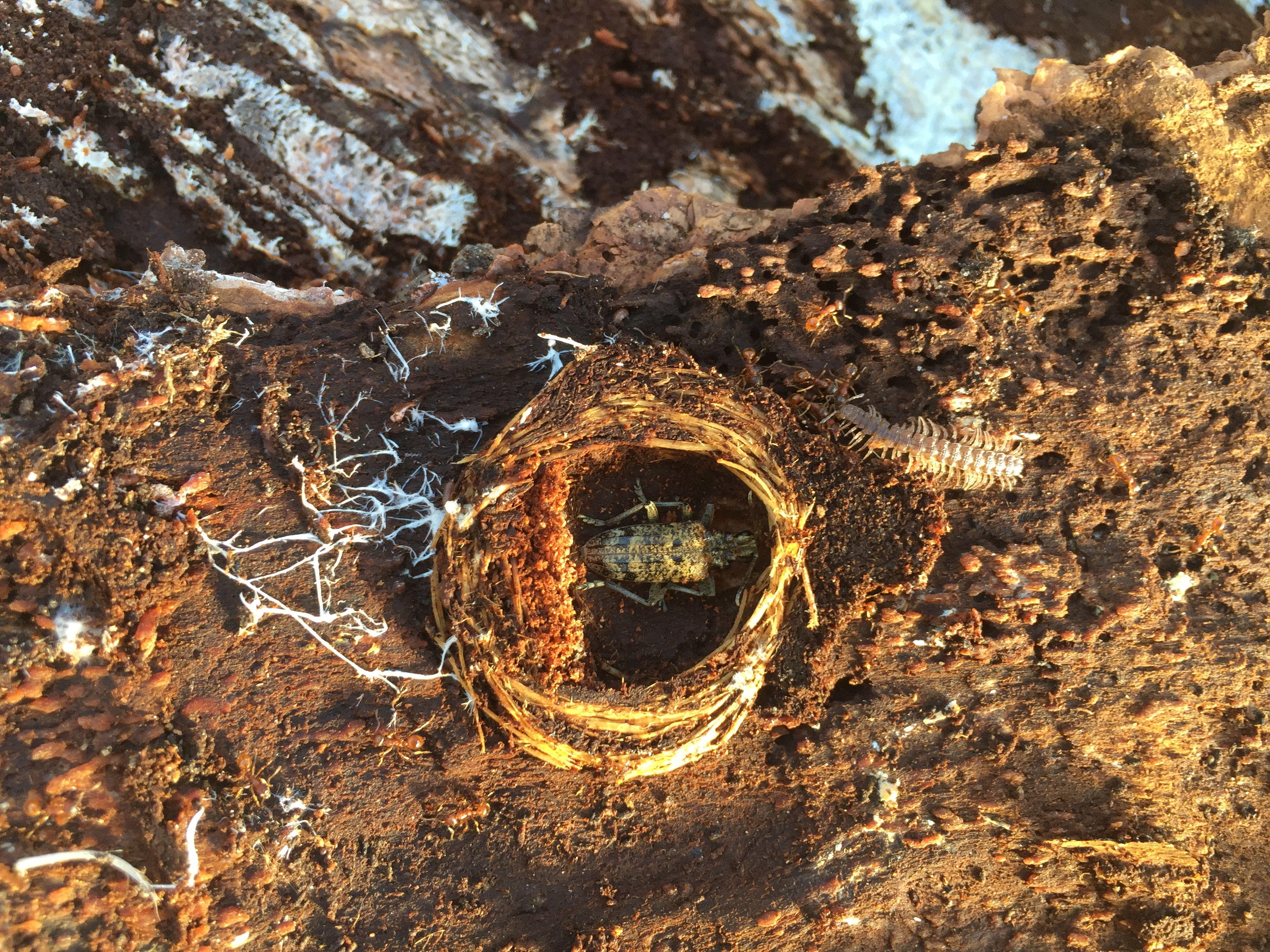 Bartreløper(Rhagium inquisitor) i reiret den lagde som larve